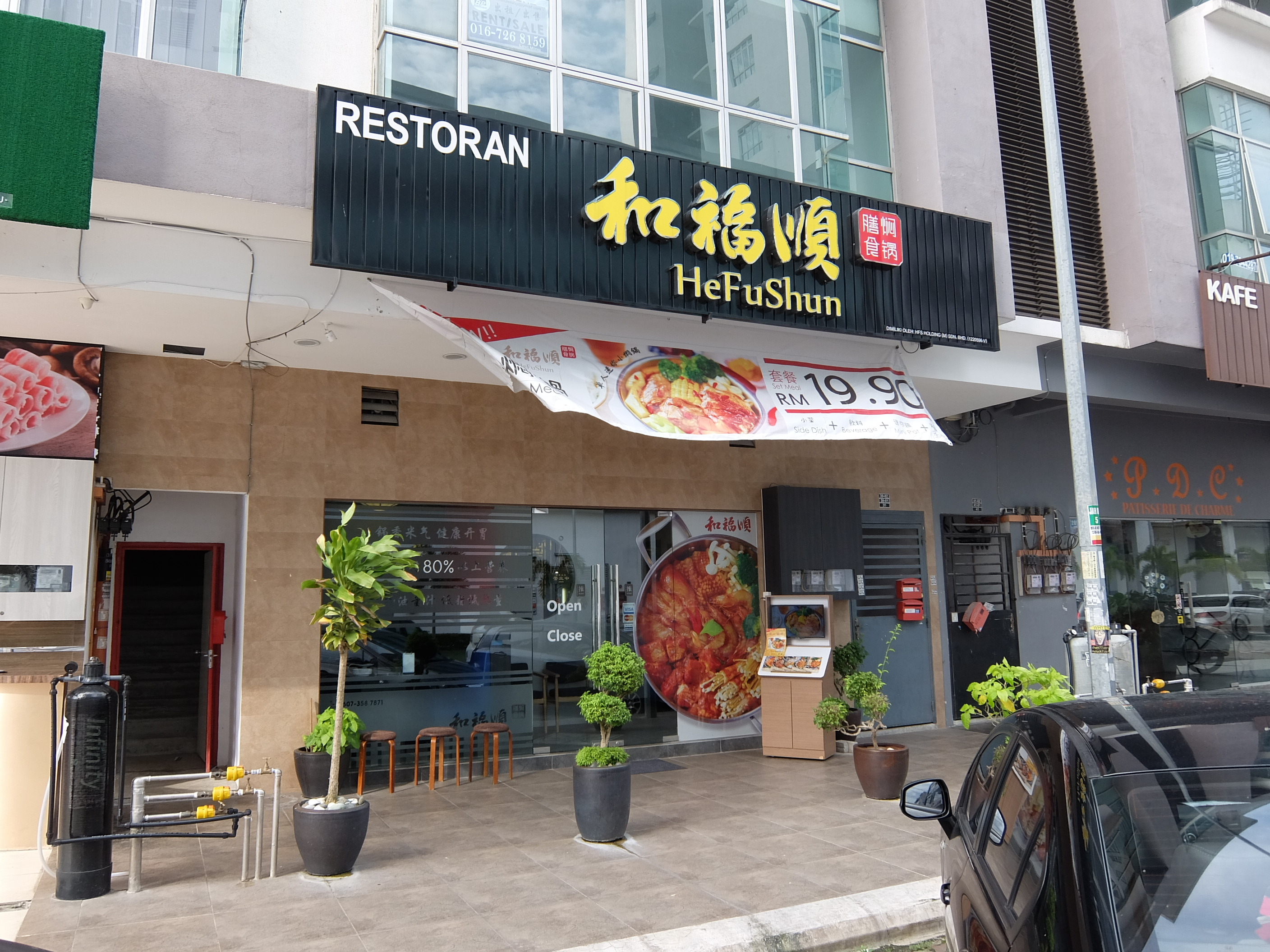 HeFuShun Restaurant, Mount Austin, Johor Bahru, Johor, Malaysia